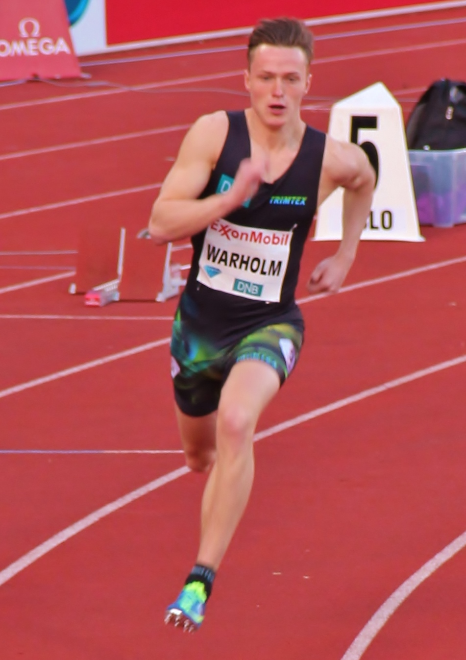 Karsten Warholm, Norwegian sprinter/decathlete at the 2015 Bislett Games